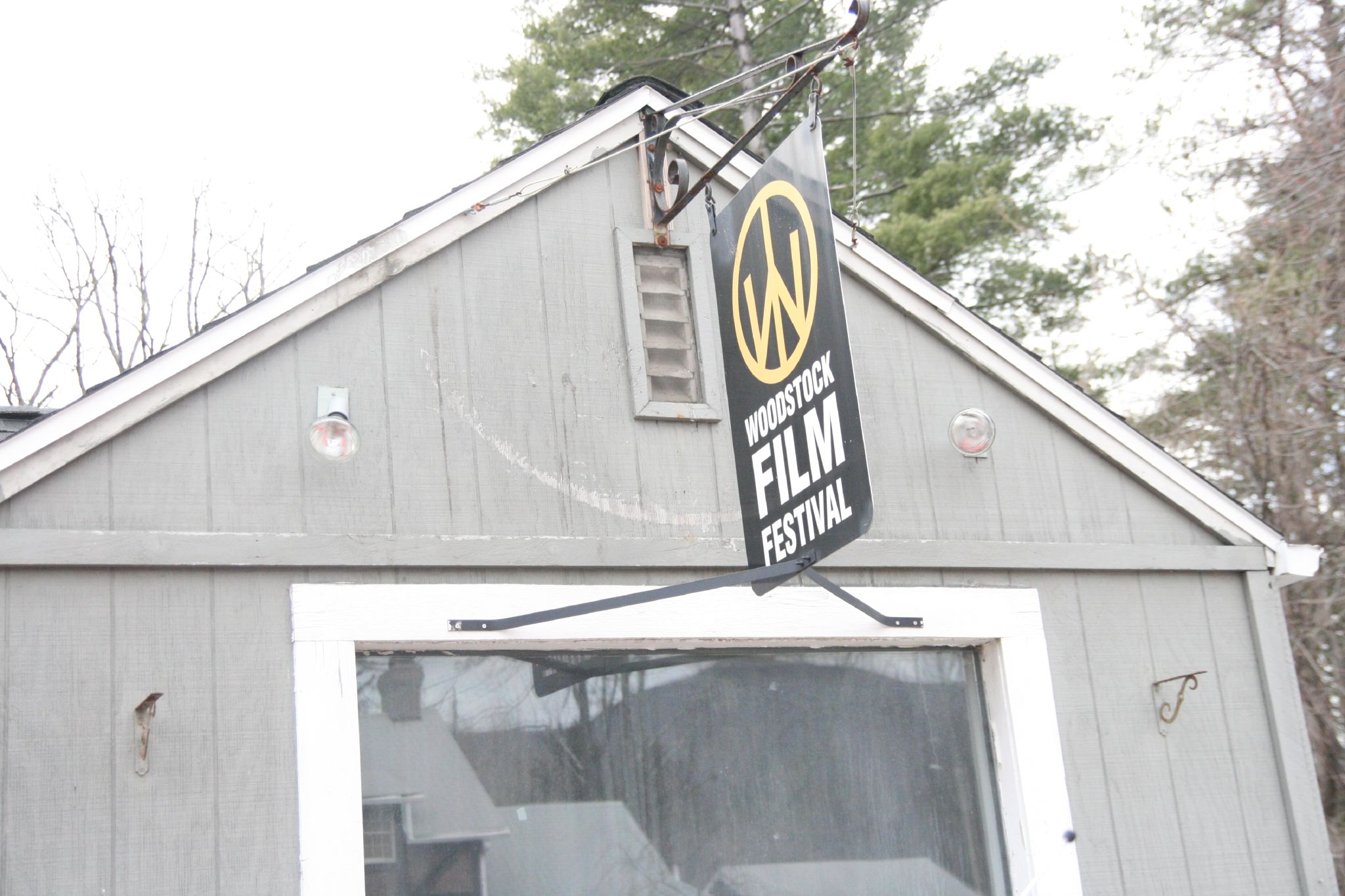 Photograph of the headquarters of the Woodstock Film Festival.